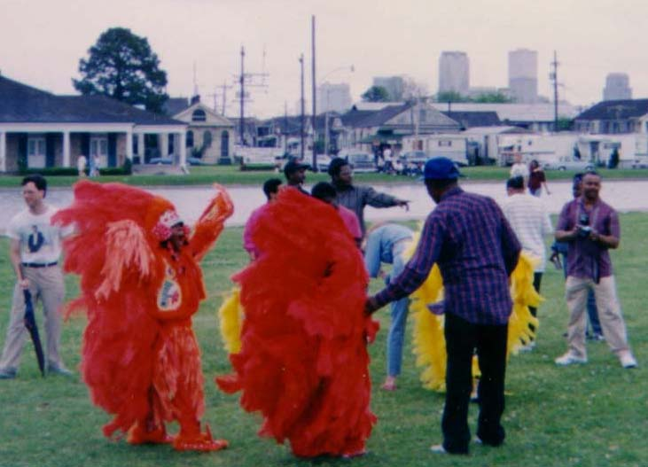 Mardi Gras Indians along Bayou St. John, New Orleans. Wider view, from same shot: Image:InjunsOnTheBayou.jpg Photo by Infrogmation, "Super Sunday" 1991